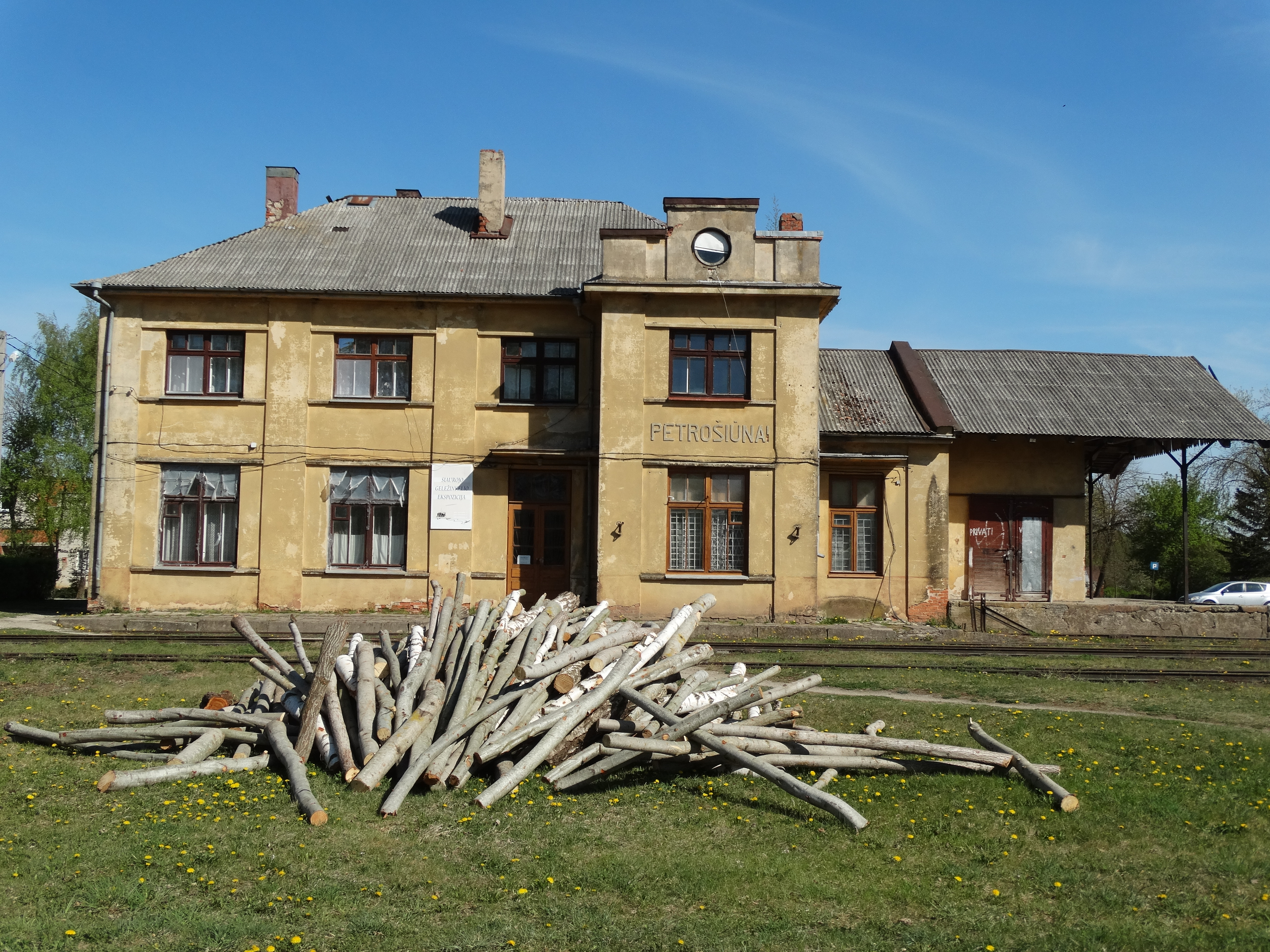 Petrašiūnai, Pakruojis district, Lithuania